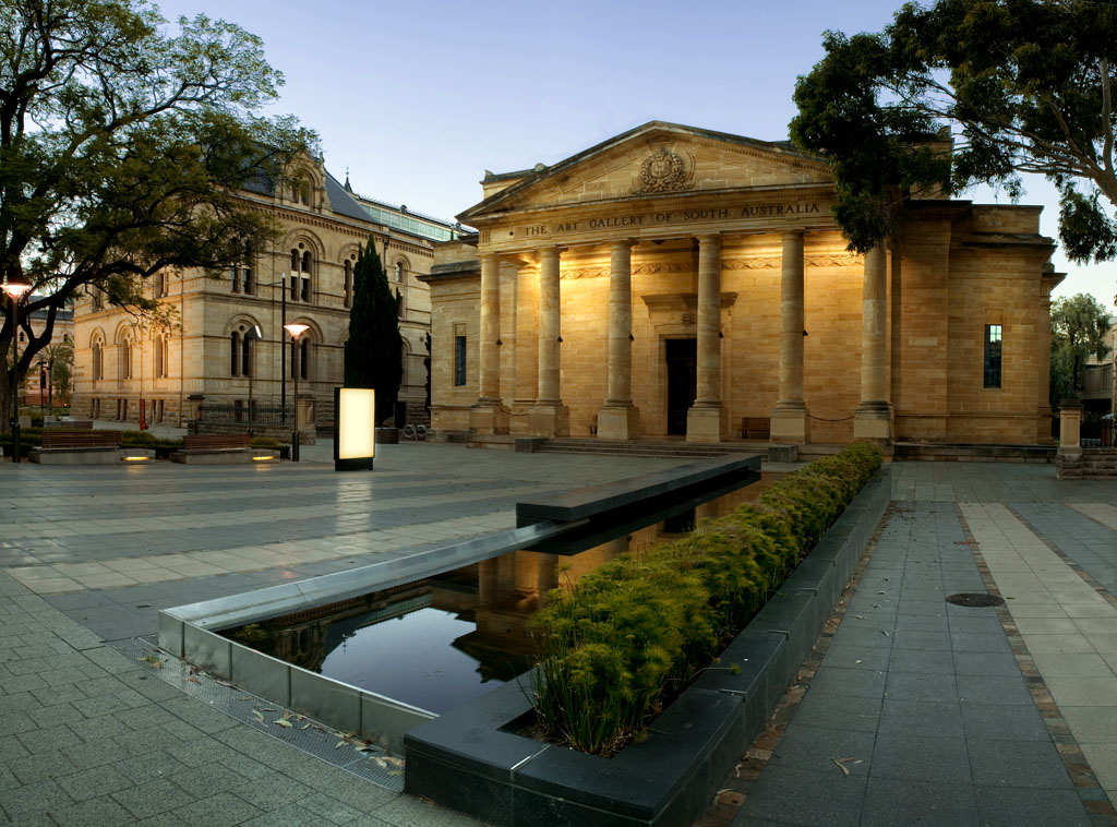 Art Gallery of South Australia K Lindstrom